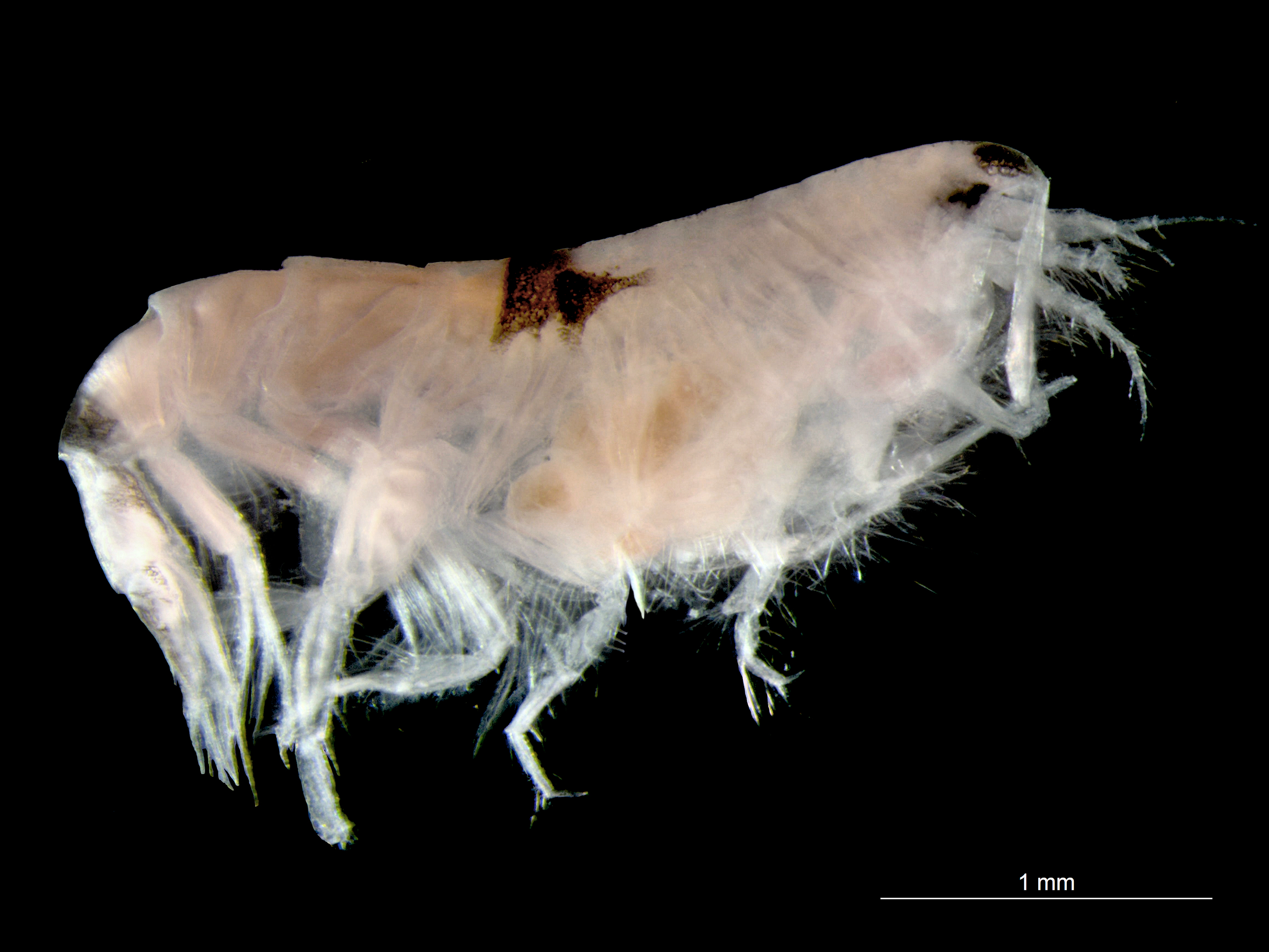 Amphipod with a short, pointed down-turned rostrum. Sampled on mid-sized sediments on Northern part of the Buitenratel at 51°18′32.4″N 2°36′10.8″E / 51.309°N 2.603°E, on the Belgian Continental Shelf in 2011. Length: ~4 mm